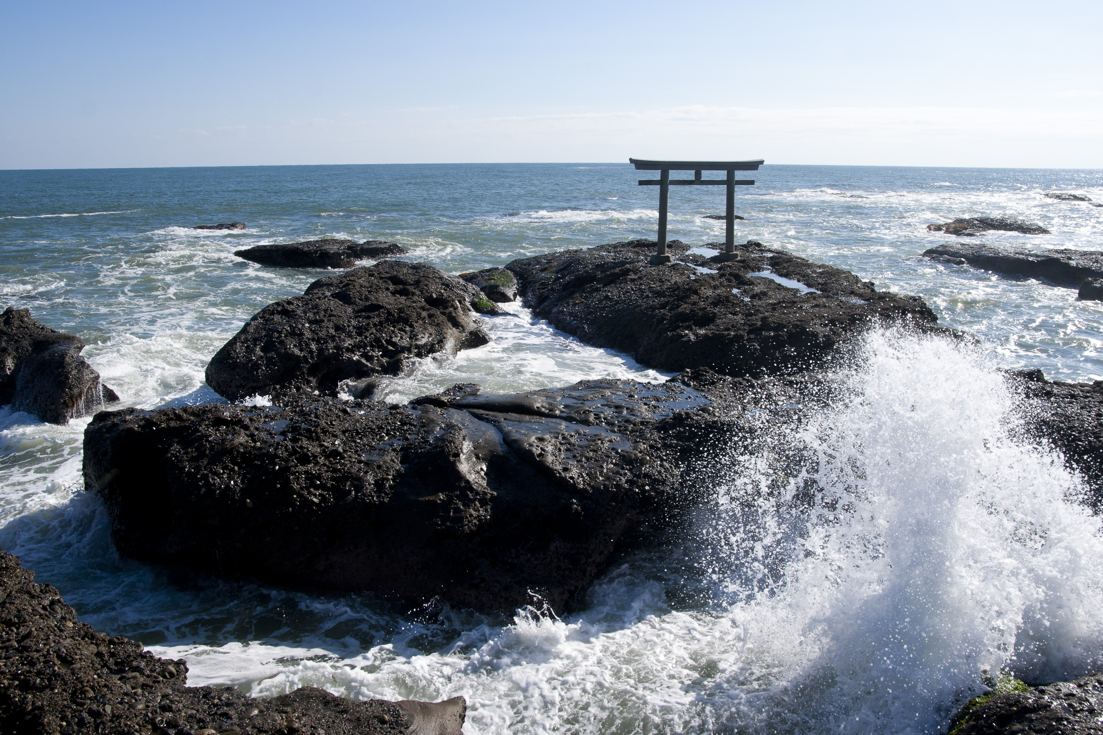 Oarai Coast, Oarai Town, Ibaraki Prefecture, Japan